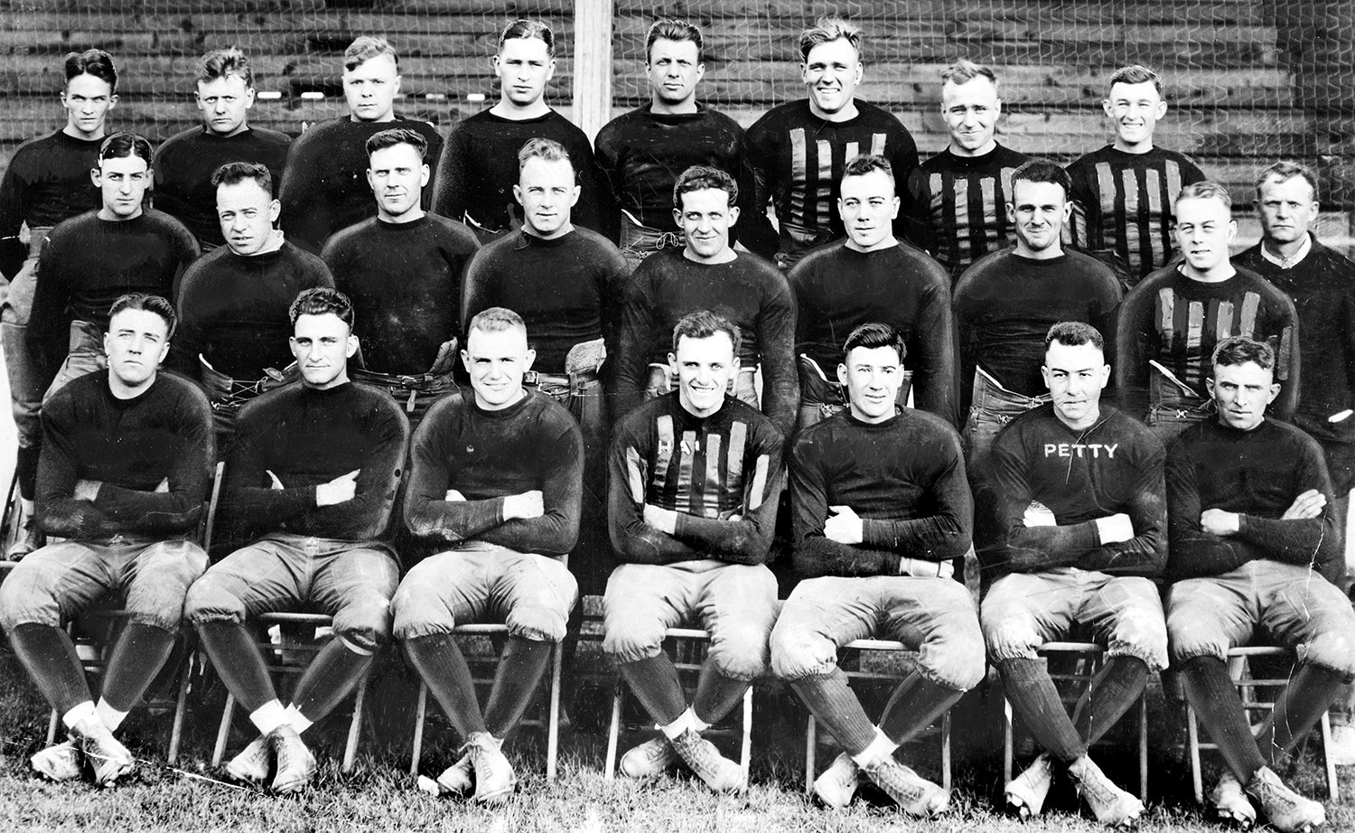 The 1920 Decatur Staleys football team. It would be later renamed "Chicago Bears".